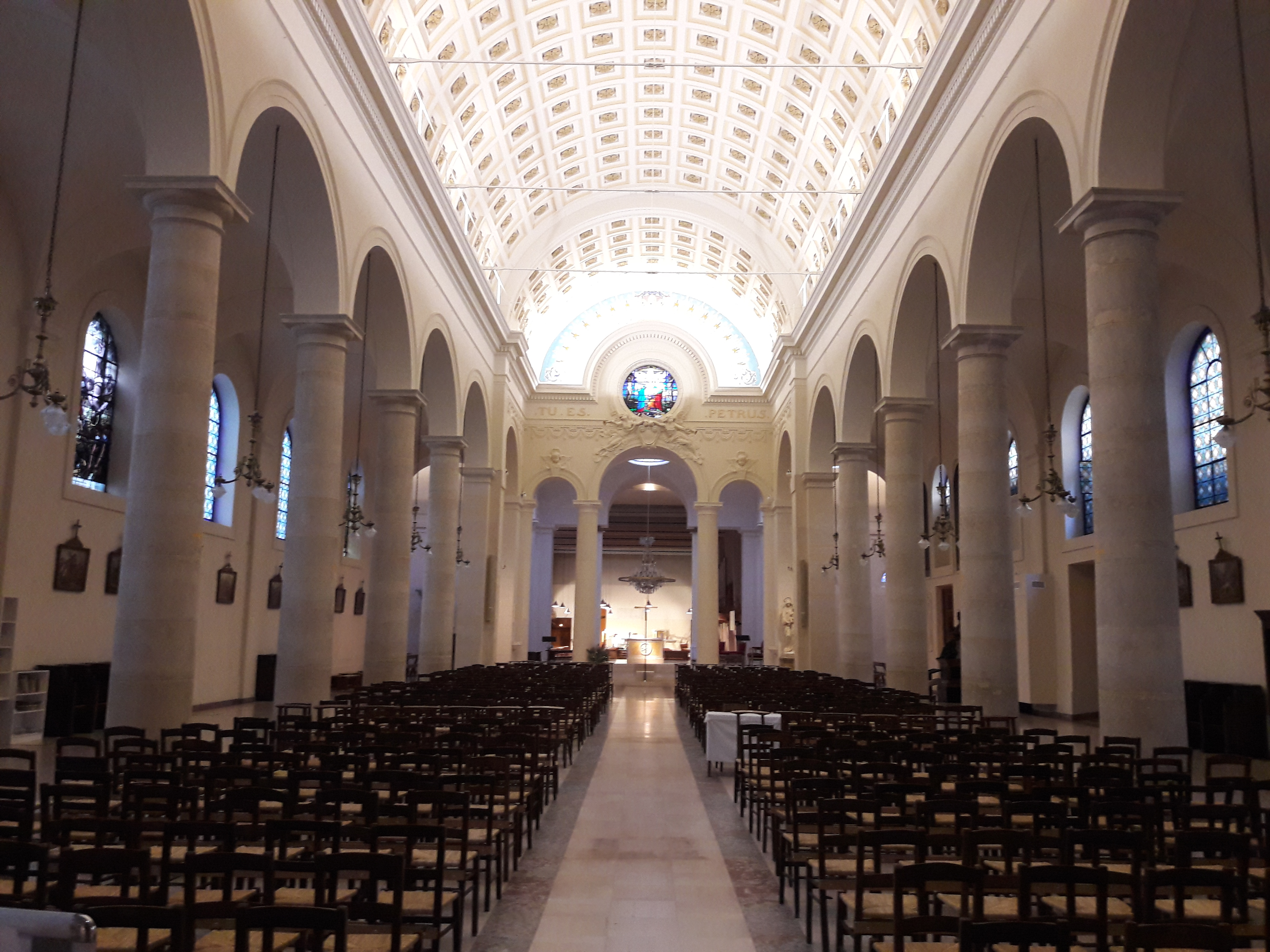 Interior of Catholic church of Saint Pierre du Gros Caillou 7th arrondissement of Paris